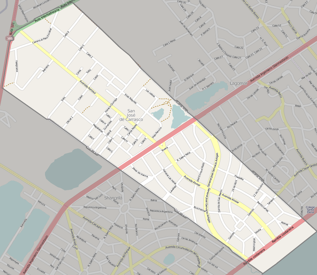 Street map of San José de Carrasco, resort of the Ciudad de la Costa, Canelones Department, Uruguay, exported from OpenStreetMap. I added shading to delimit the resort. This map may be incomplete, and may contain errors. Don't rely solely on it for navigation.